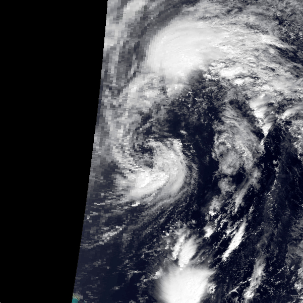 Subtropical Storm Nicole on October 10, 2004